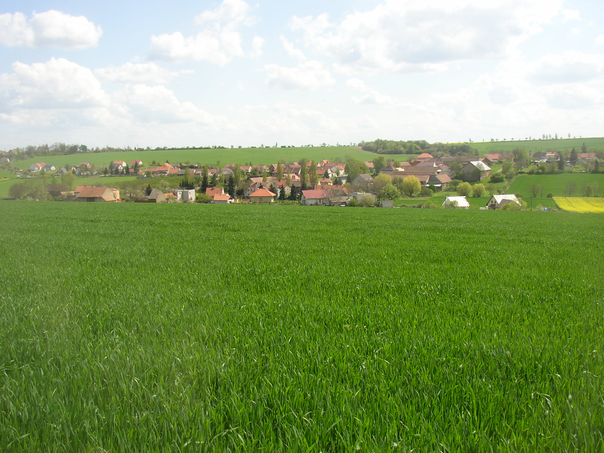 Libovice, Kladno District, Czech Republic, as seen from the north. Pilgrimage church of the Assumption in Tuřany is also visible among trees on left horizon.